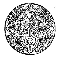 Seal of Marguerite de Bourbon (1344-1416)